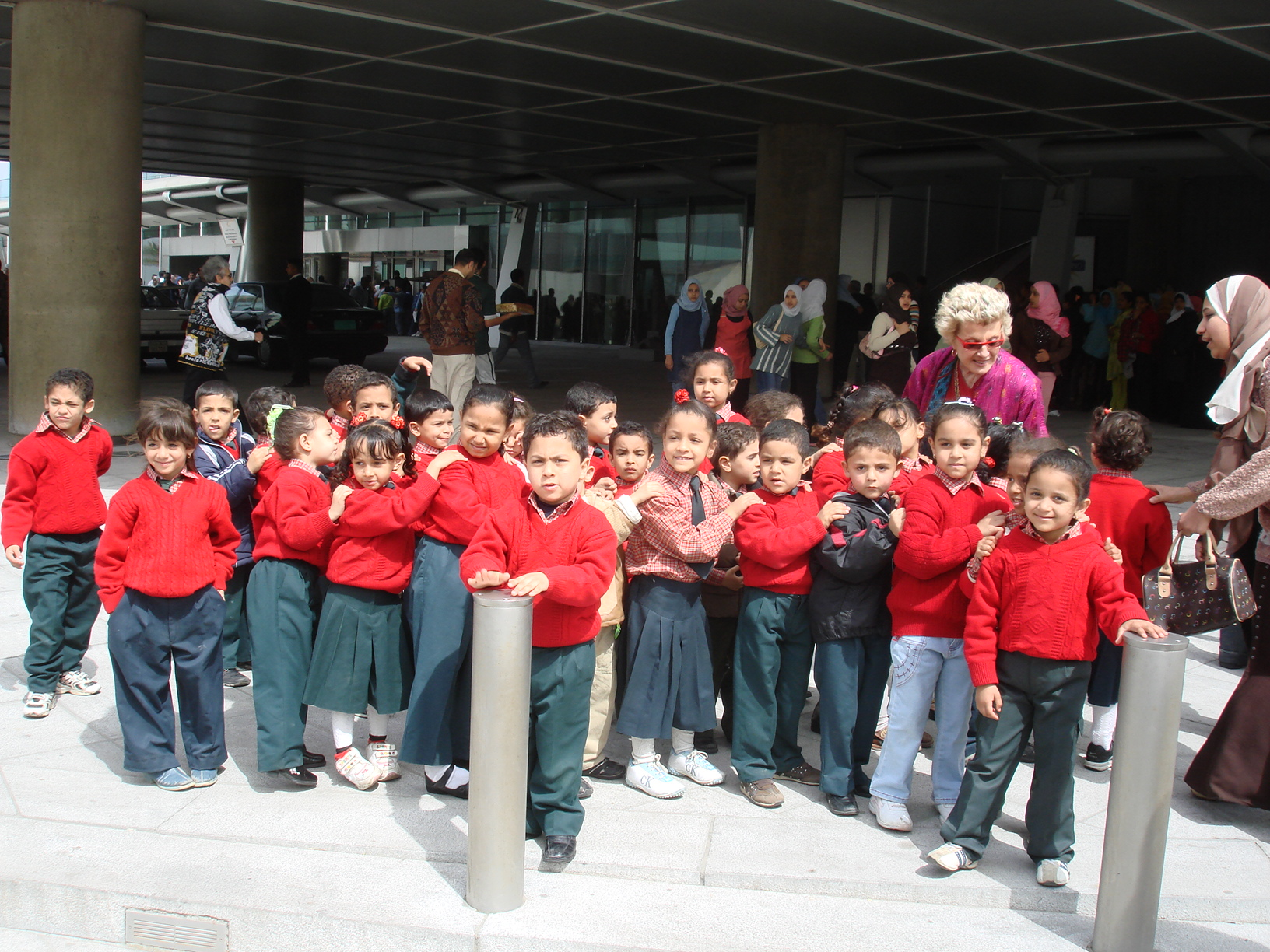 School visit to Bibliotheca Alexandrina